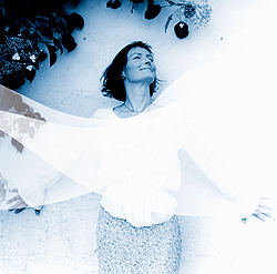 Tone Krohn - From the CD "Ula".